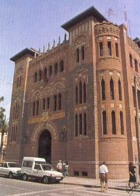 Post ofice building in Castellón de la Plana (Spain).